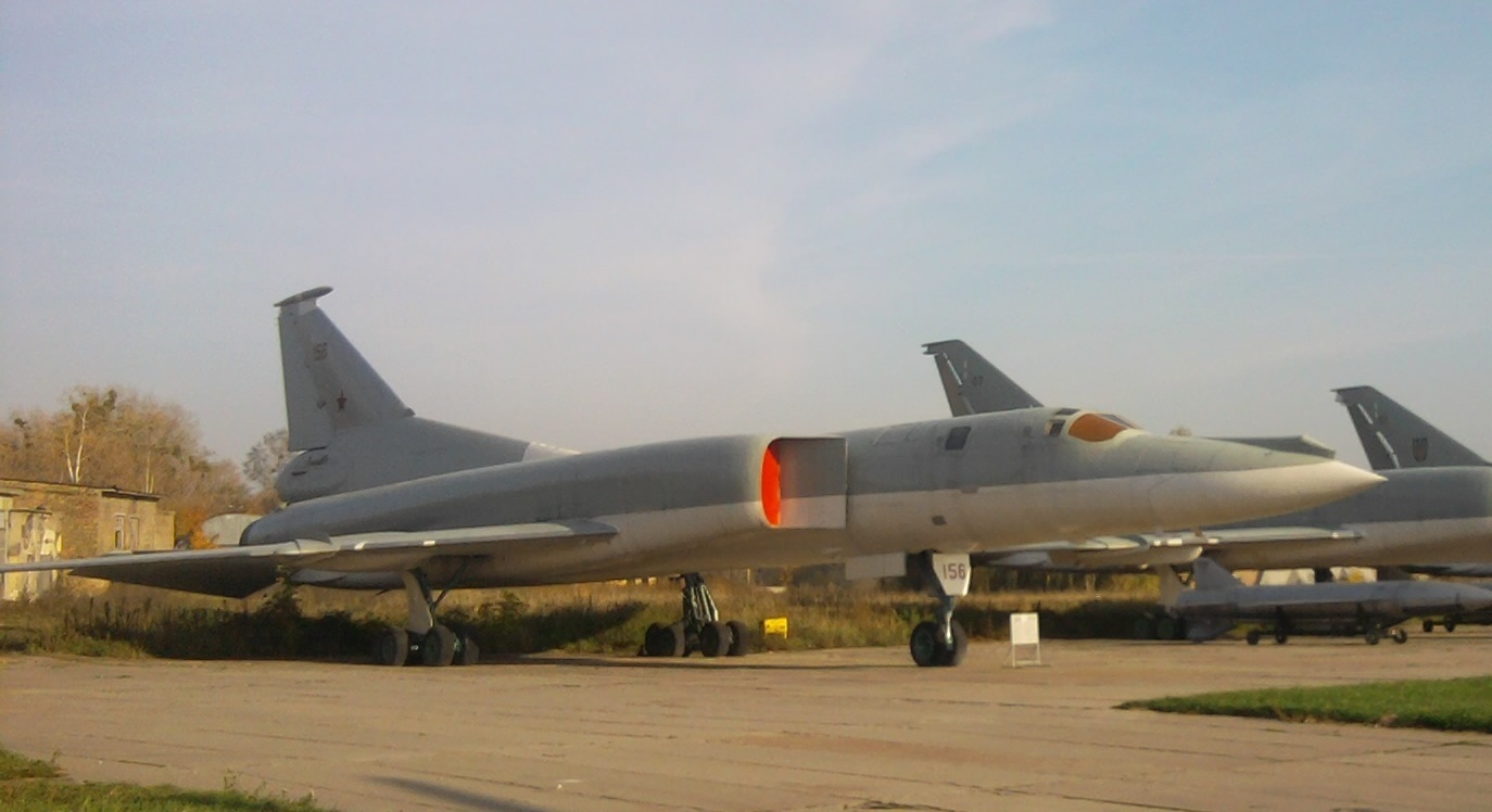 Tu-22M0 at the Kiev Aviation Museum.